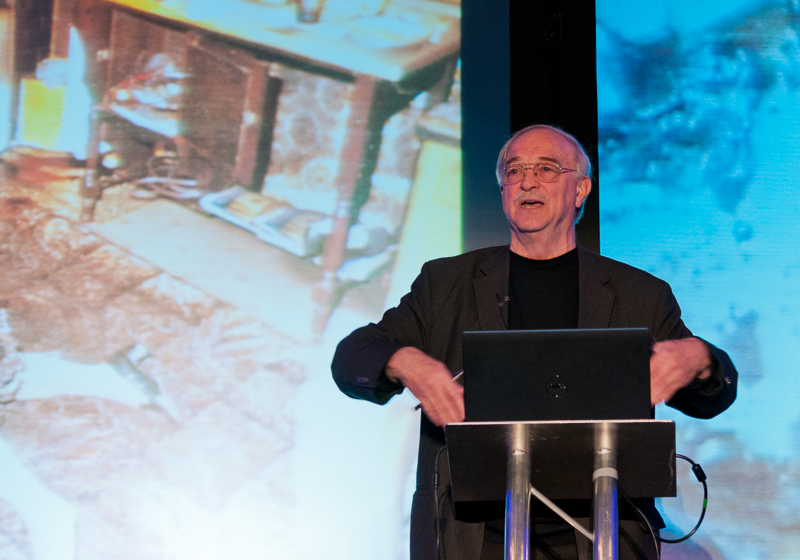 Joe Nickell gives a great talk on being a paranormal investigator at QED Con 2012.